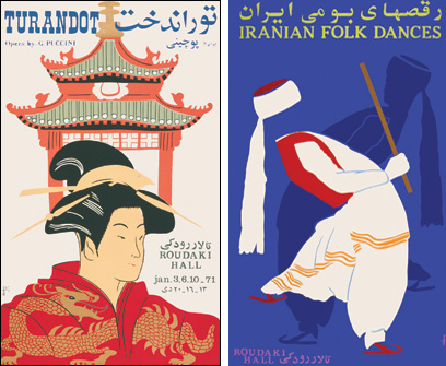 Posters talar-e rudaki